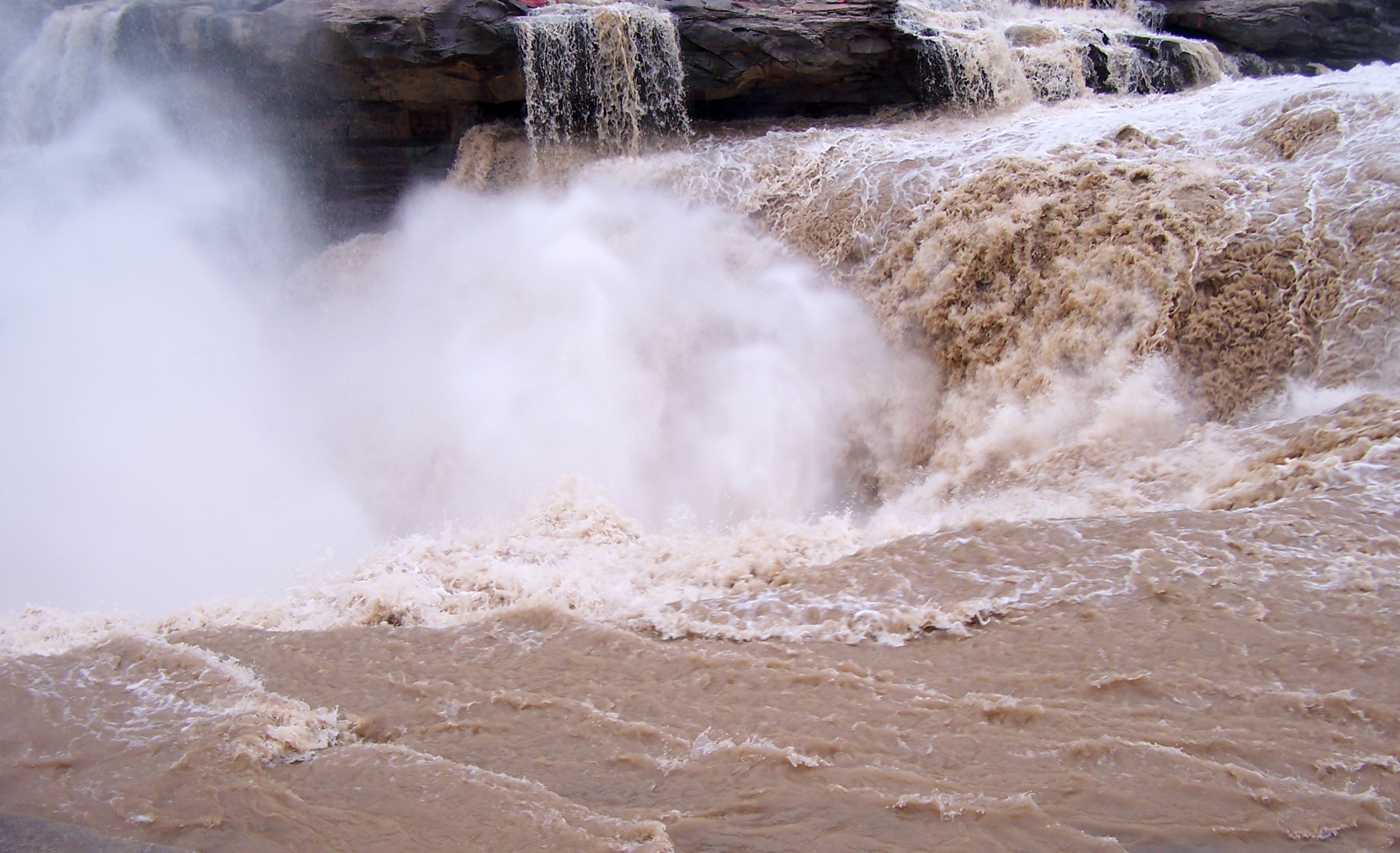 Hukou Waterfall of Yellow River,China